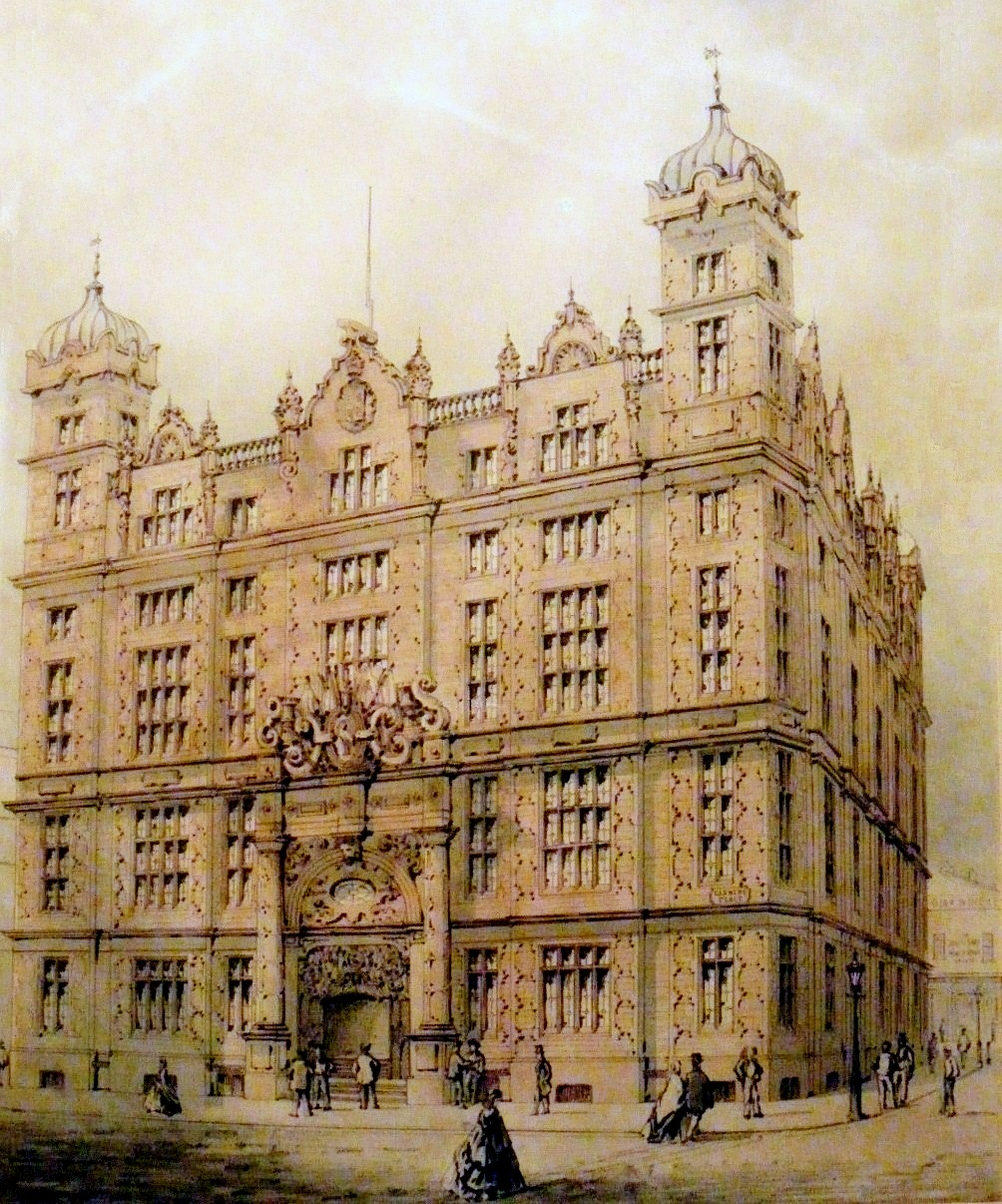 Victorian illustration of the Sailor's Home in Canning Place, Liverpool